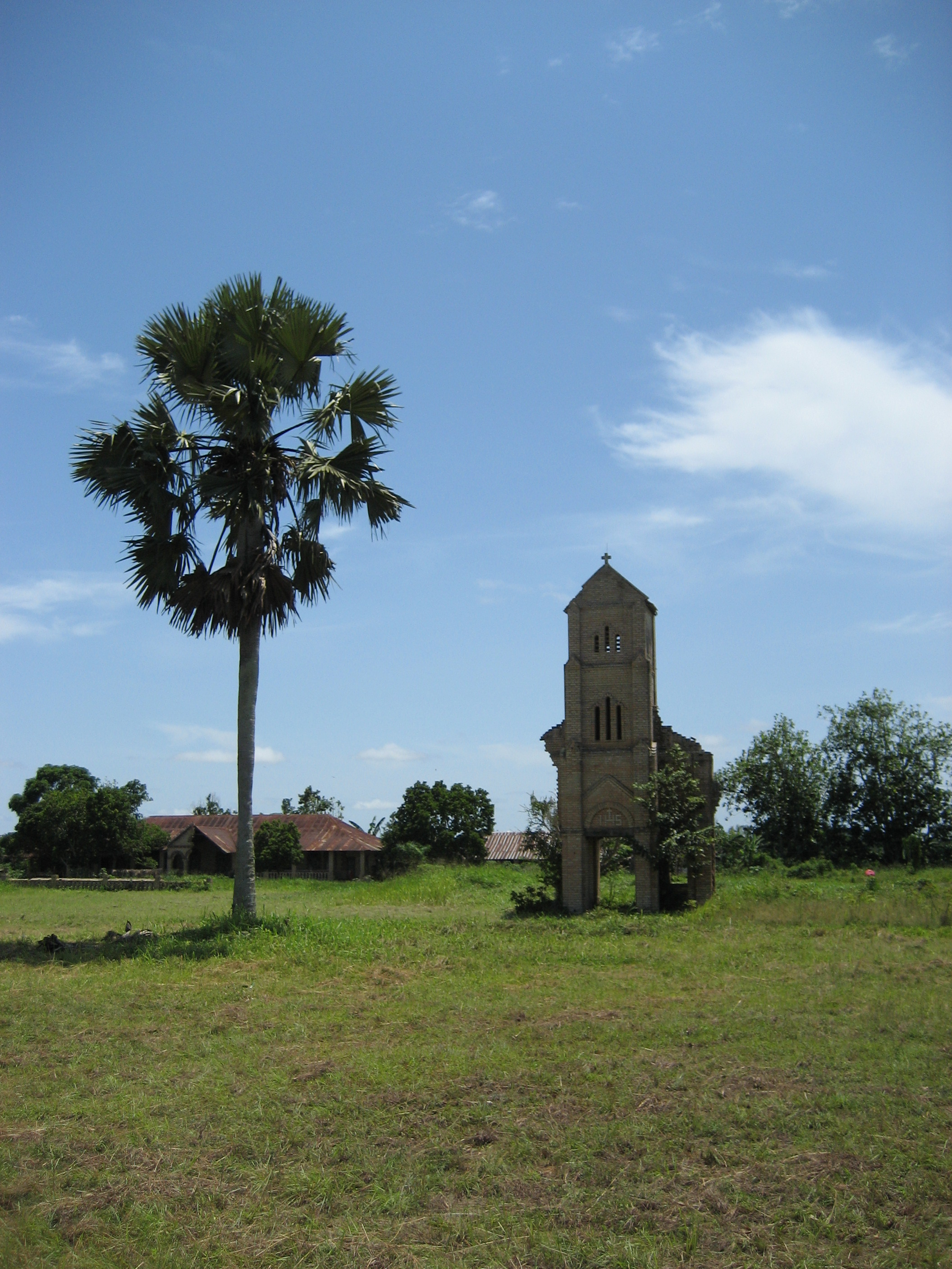 Ruins of the former church of Makoua, Republic of the Congo, today a few kilometers from the town.